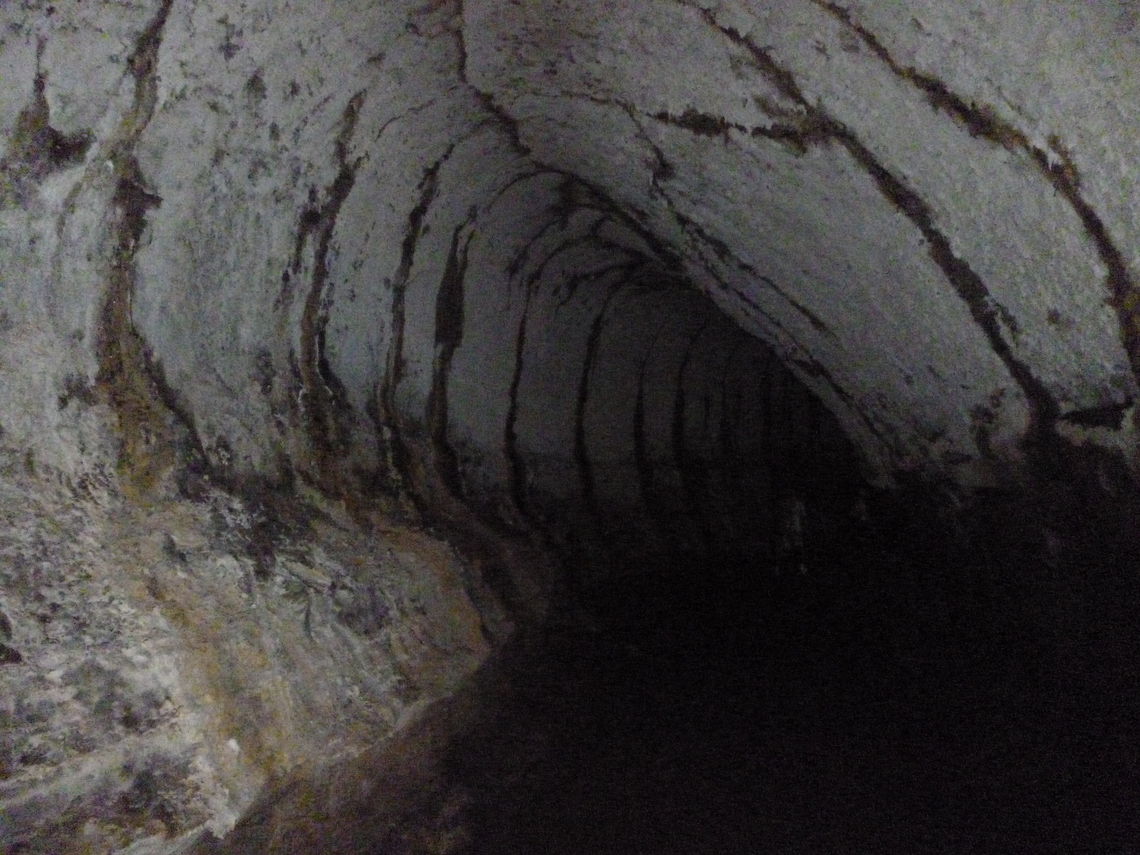 Professional photographer David Adam Kess took this photo of a 2,500 meter long lava tube underground of the Island of Santa Cruz.